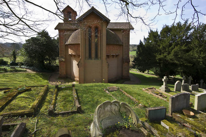 Author: Antony McCallum Watts Cemetery Chapel Compton Surrey